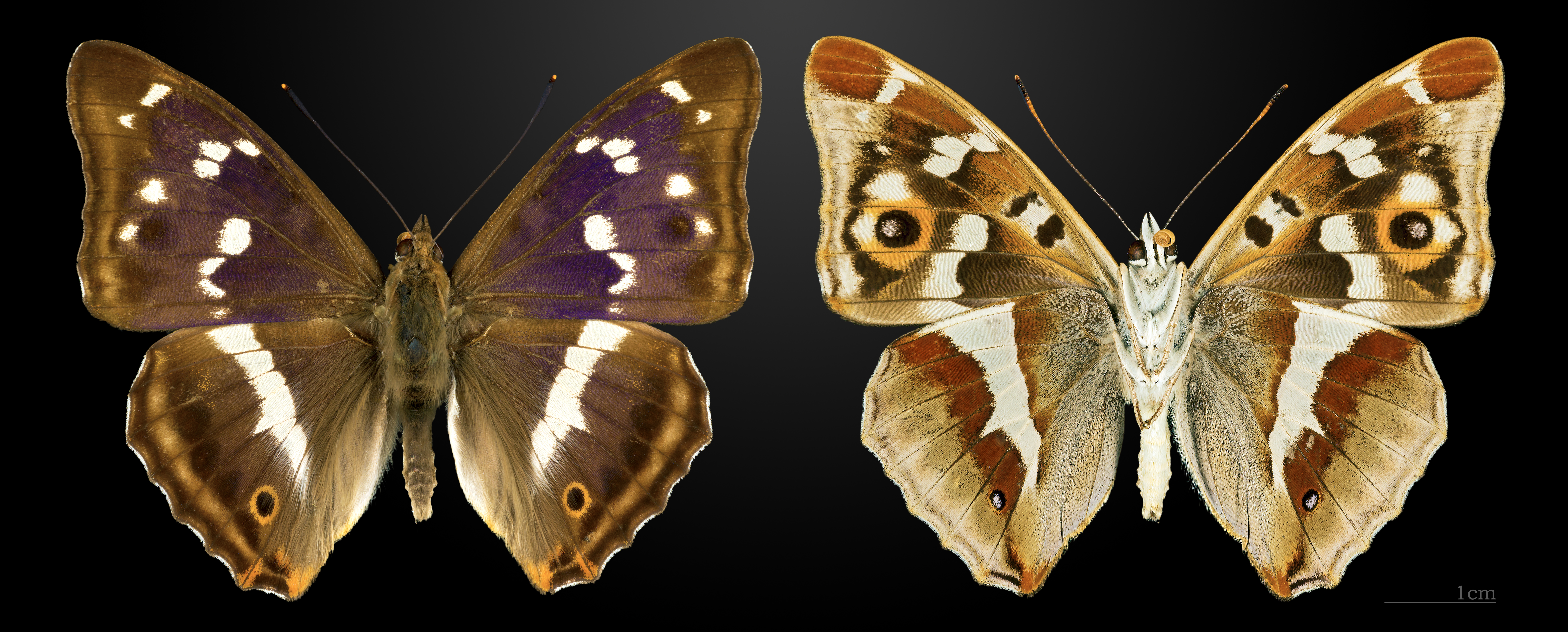 Purple Emperor - Two views of same specimen